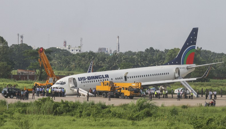 An us bangla airlines boeing 737-800 crash landed at shah amanat international airport, chittagong